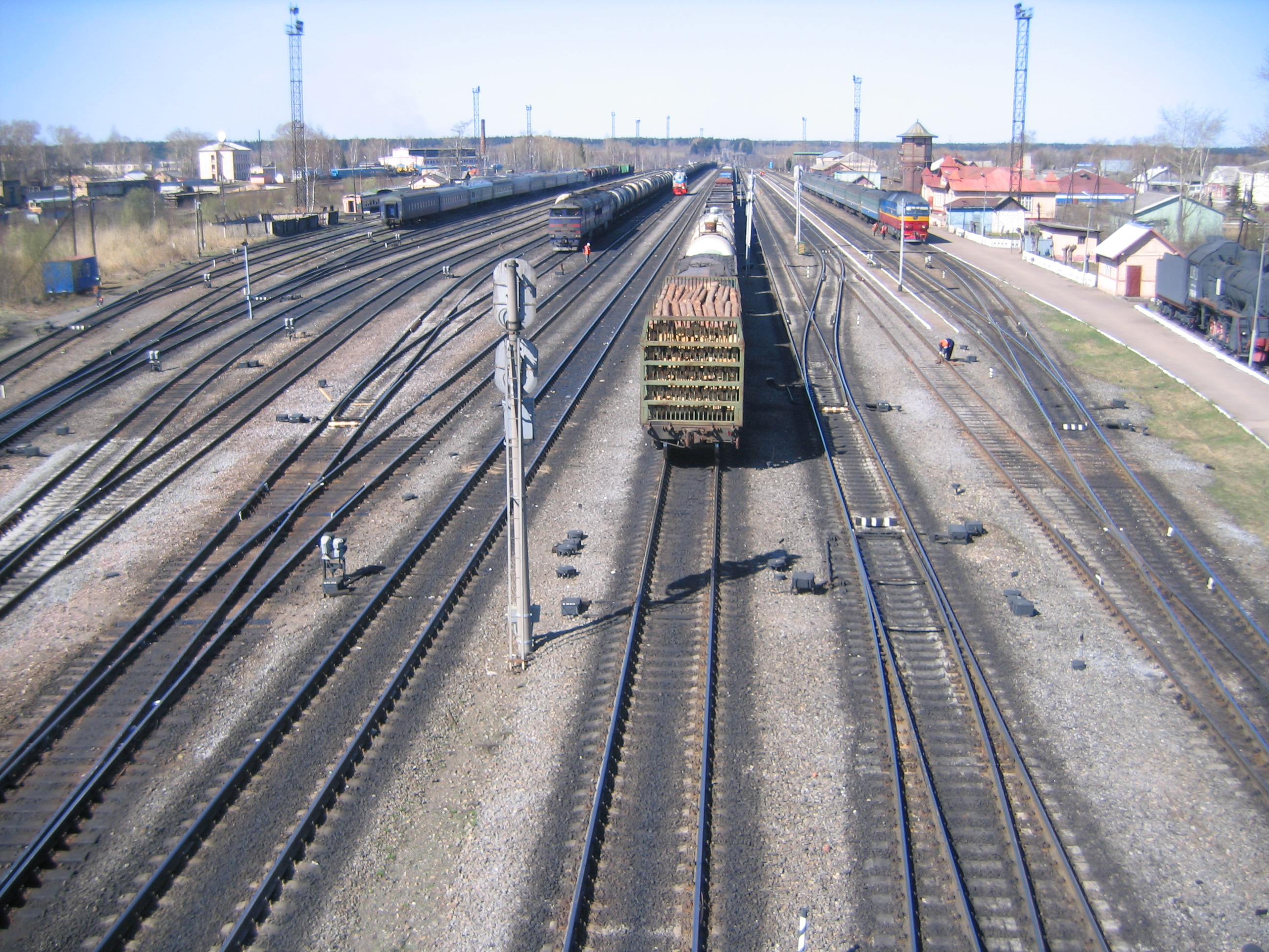 Sonkovo railway station, Tver region, Russia